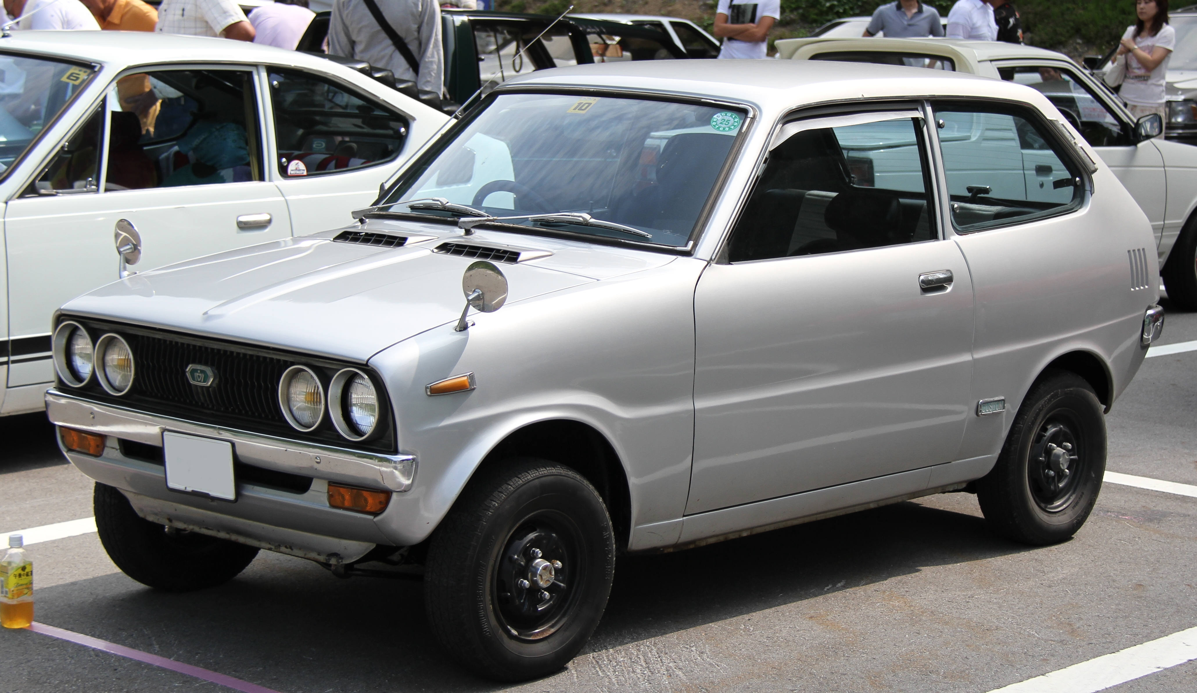 Mitsubishi Minica F4